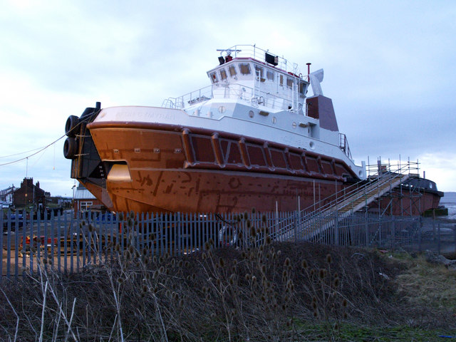 Nearly Completed Tug AK BURKUT IMO No.9420875 at Hepworth Shipyard, Paull, East Riding of Yorkshire, England. IMO Number: 9420875 MMSI Number: 210628000 Callsign: C4ZN2 Length: 35 0m Beam: 13 m